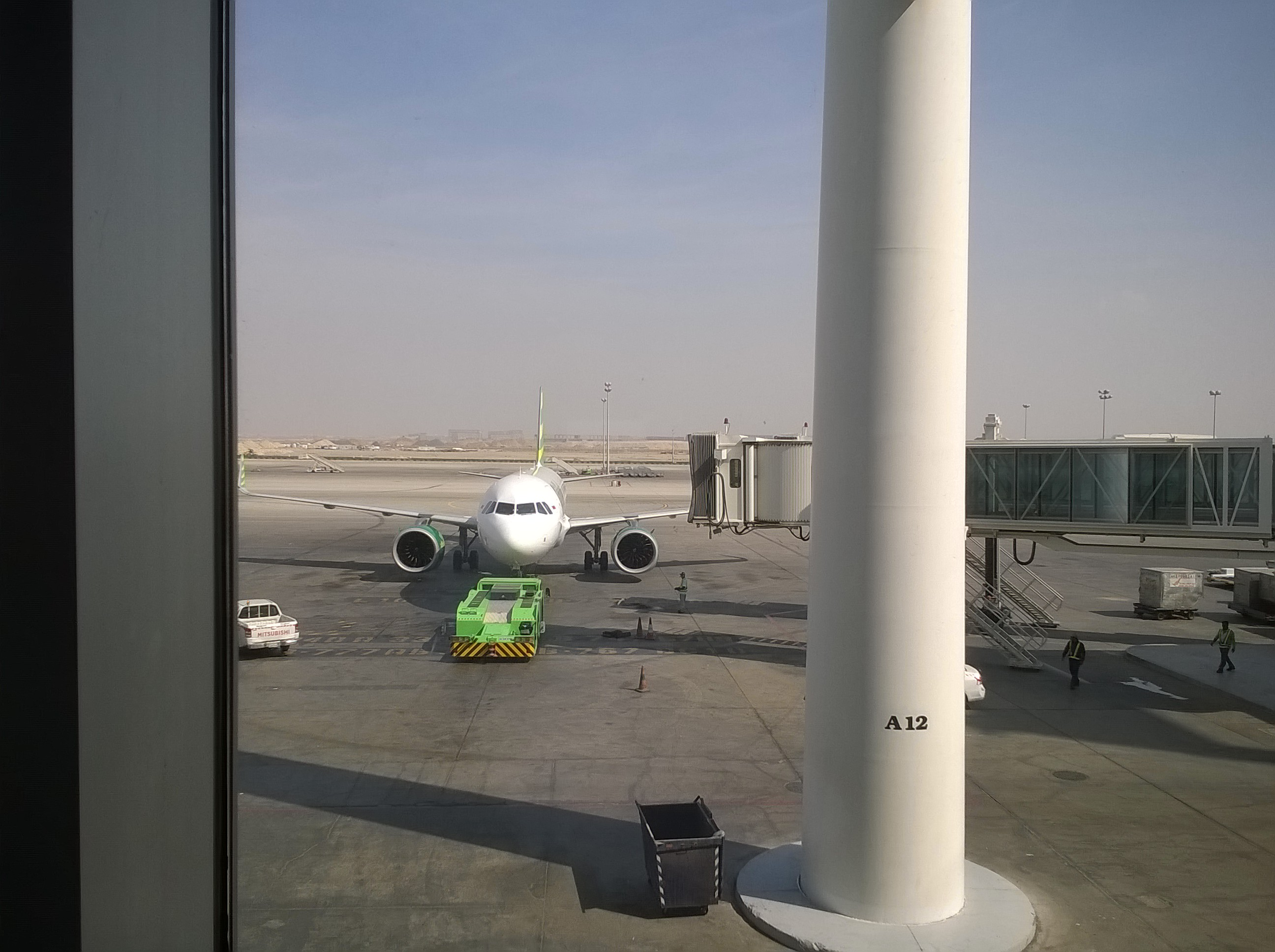 I've taken this photo by my Microsoft Mobile Phone at KSA, Jeddah King Abdulaziz International Airport while waiting for plane to Multan International Airport via airblue. A Citilink Airbus A320-200 was taxing at the airport ready for take off to Indonesia on 2017-Dec-06 12:44